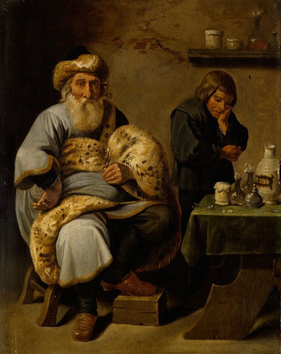 Height: 35 cm (13.7 ″); Width: 28 cm (11 ″) dimensions QS:P2048,35U174728;P2049,28U174728